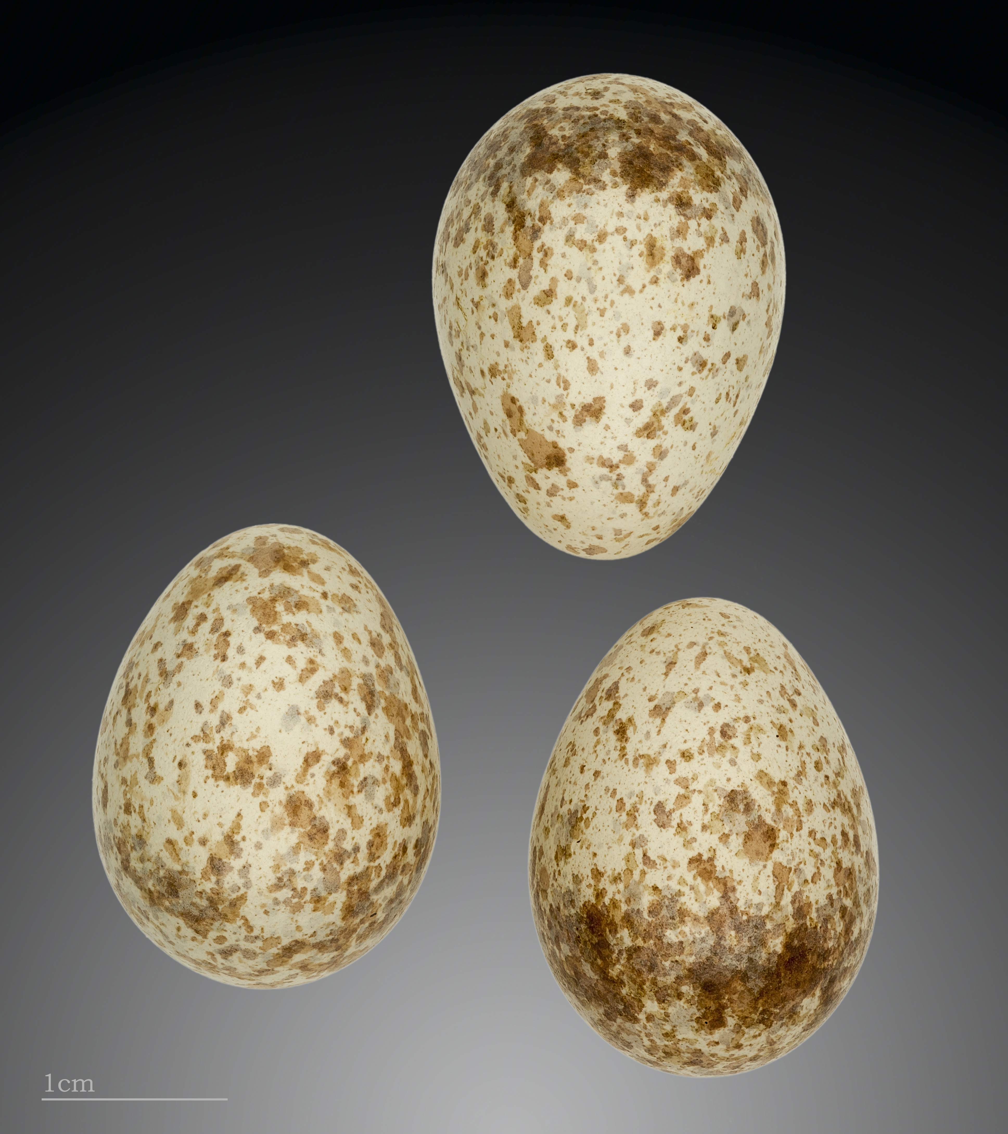 Egg of Great Grey Shrike. Collection of Jacques Perrin de Brichambaut.